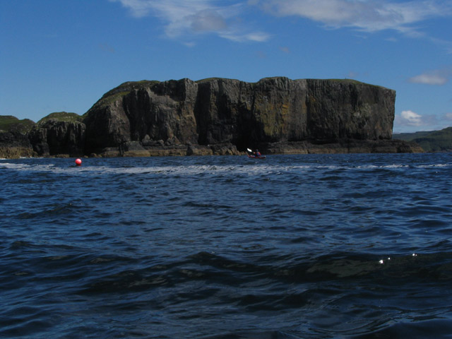 Impressive cliffs and cave below the southern end of Wiay in Loch Bracadale, Skye in the Inner Hebrides of Scotland.